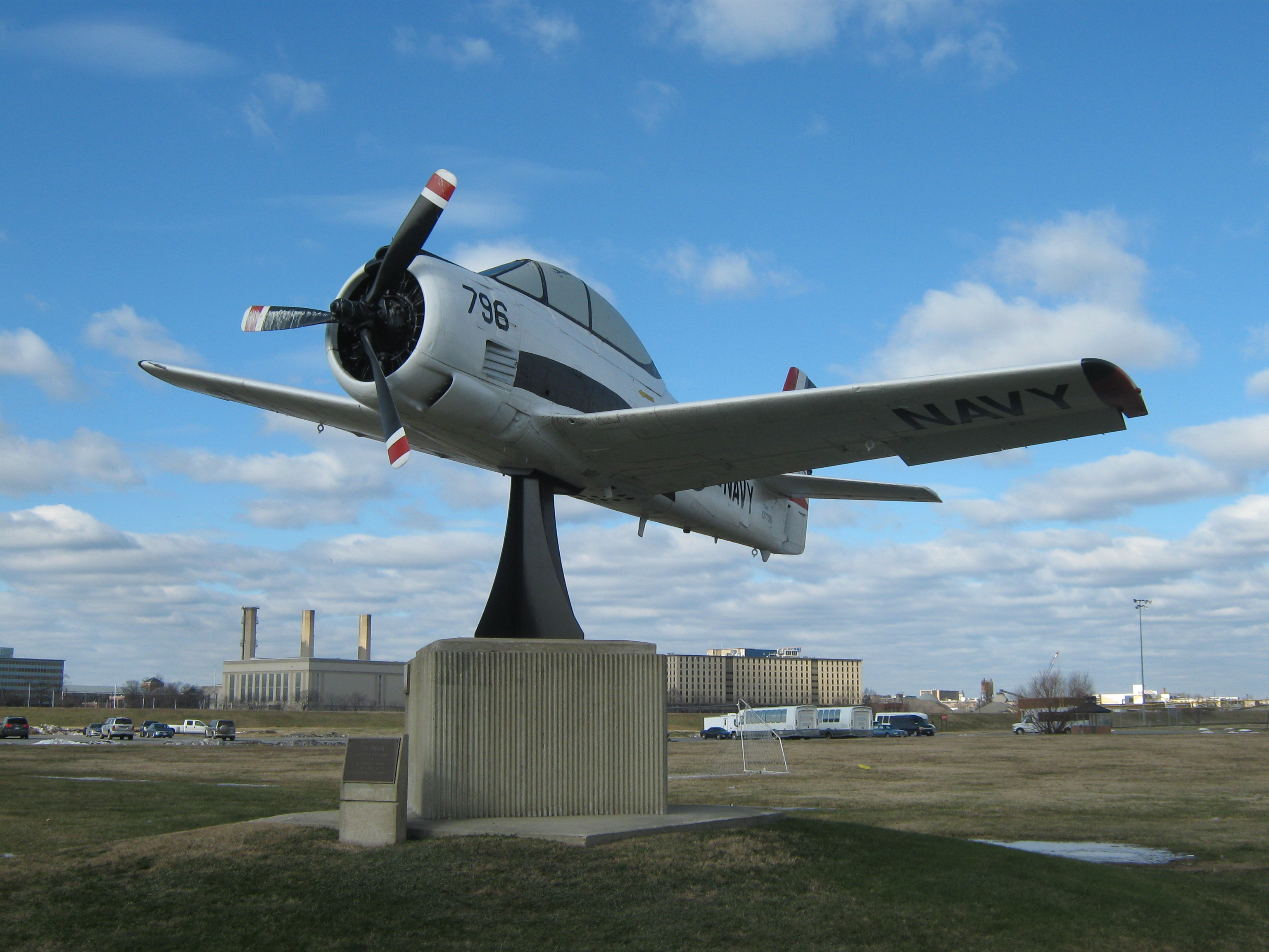 T-28 Trojan memorial located close to the corner of Defense Boulevard and Mitscher Road near the main gate of Naval Support Facility Anacostia, Washington, D.C.